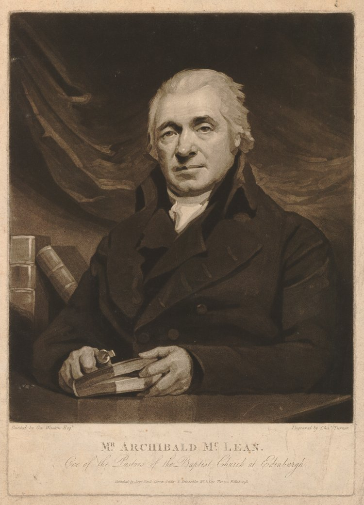 Portrait of Archibald McLean (1738–1812), Scotch Baptist minister.